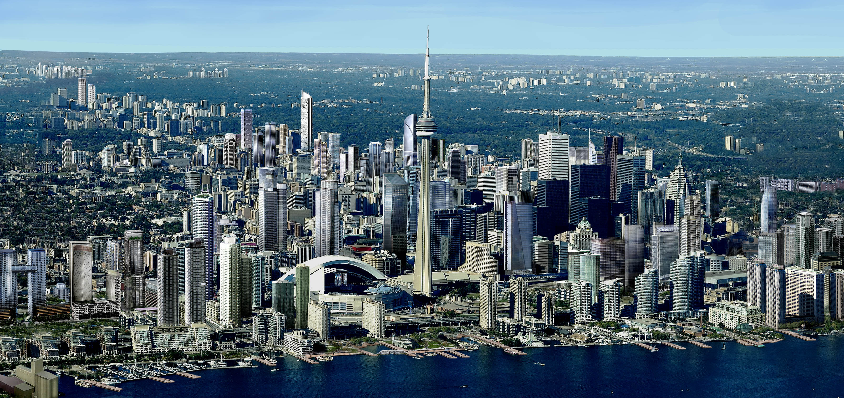 Image I first saw on . It represents the future City of Toronto considering all proposed and approved projects, as well as those currently under construction.